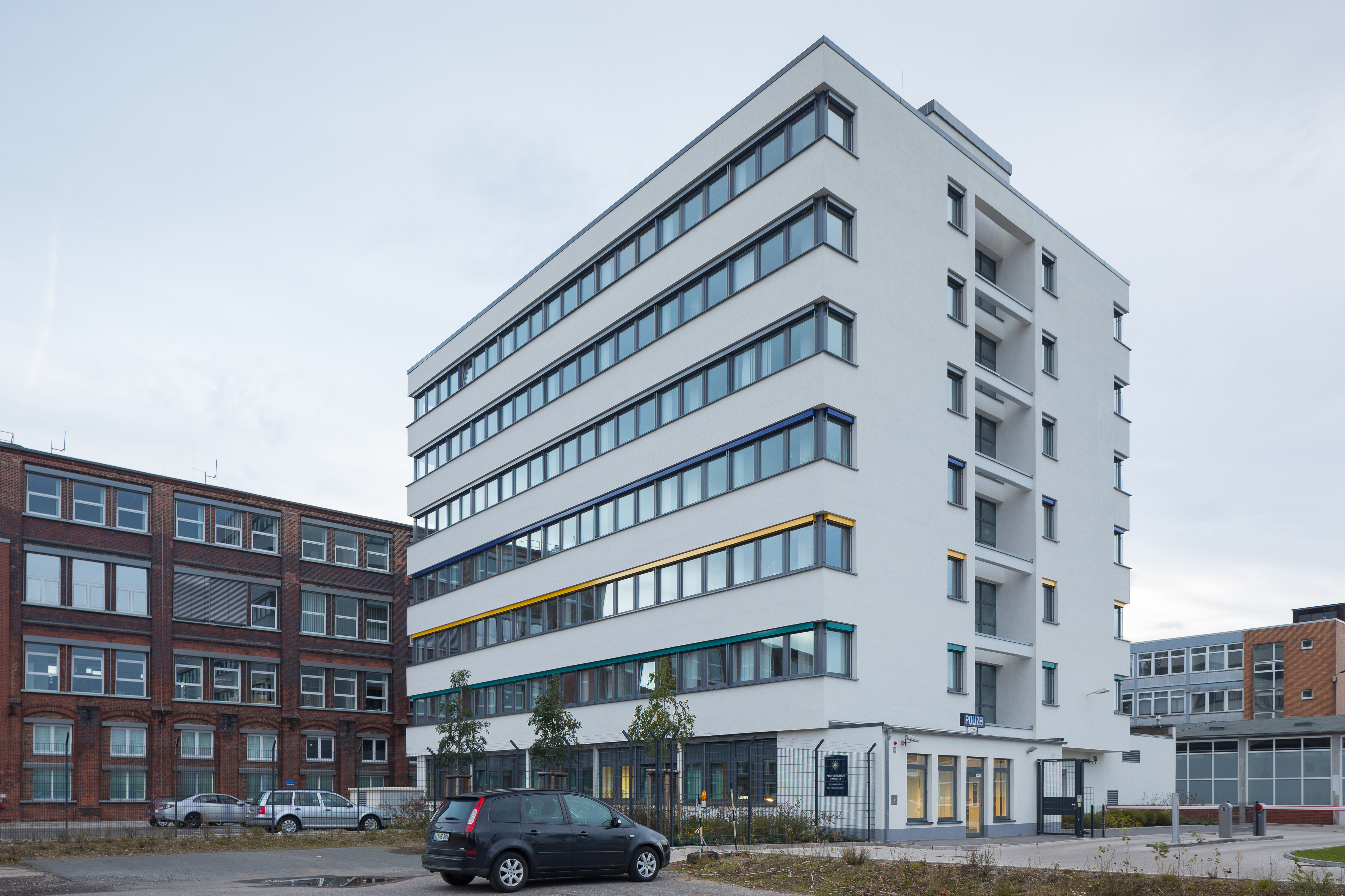 Administration building of the police located on the former Hanomag site, at Marianne-Baecker-Allee in Linden-Sued district of Hanover, Germany.